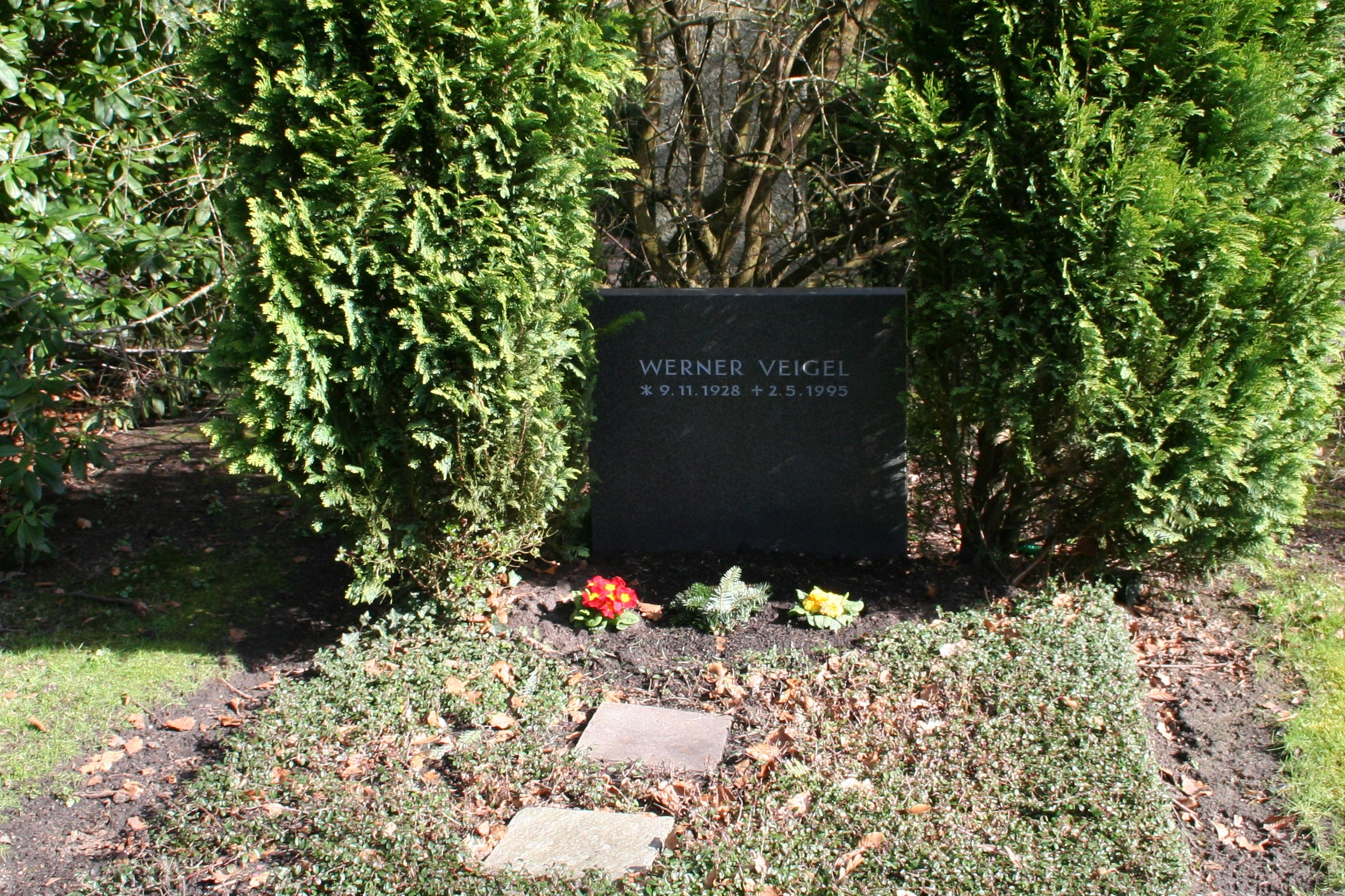 Newscaster Werner Veigel, tomb on the cemetery Hamburg-Ohlsdorf